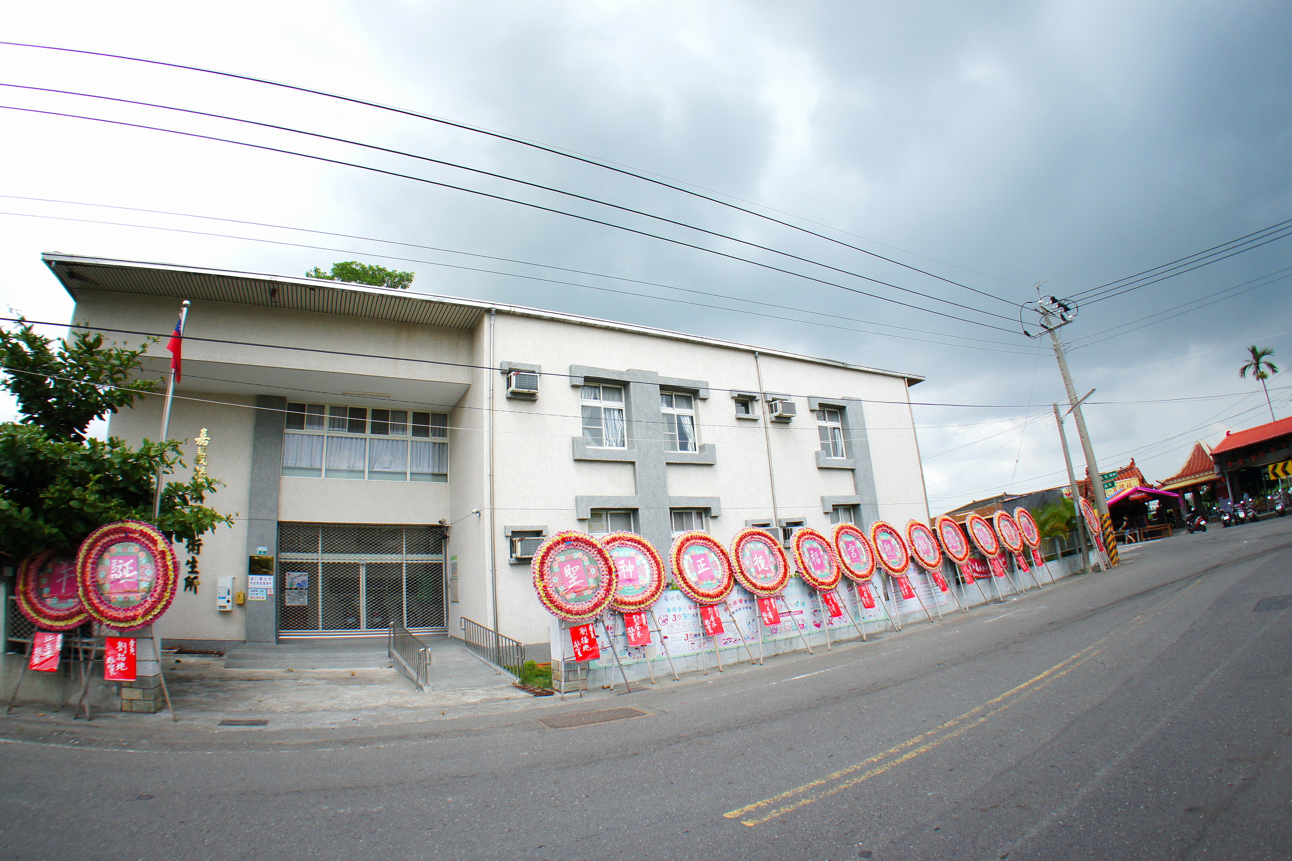 Xikou Health Station, Xikou Township, Chiayi County, Taiwan.